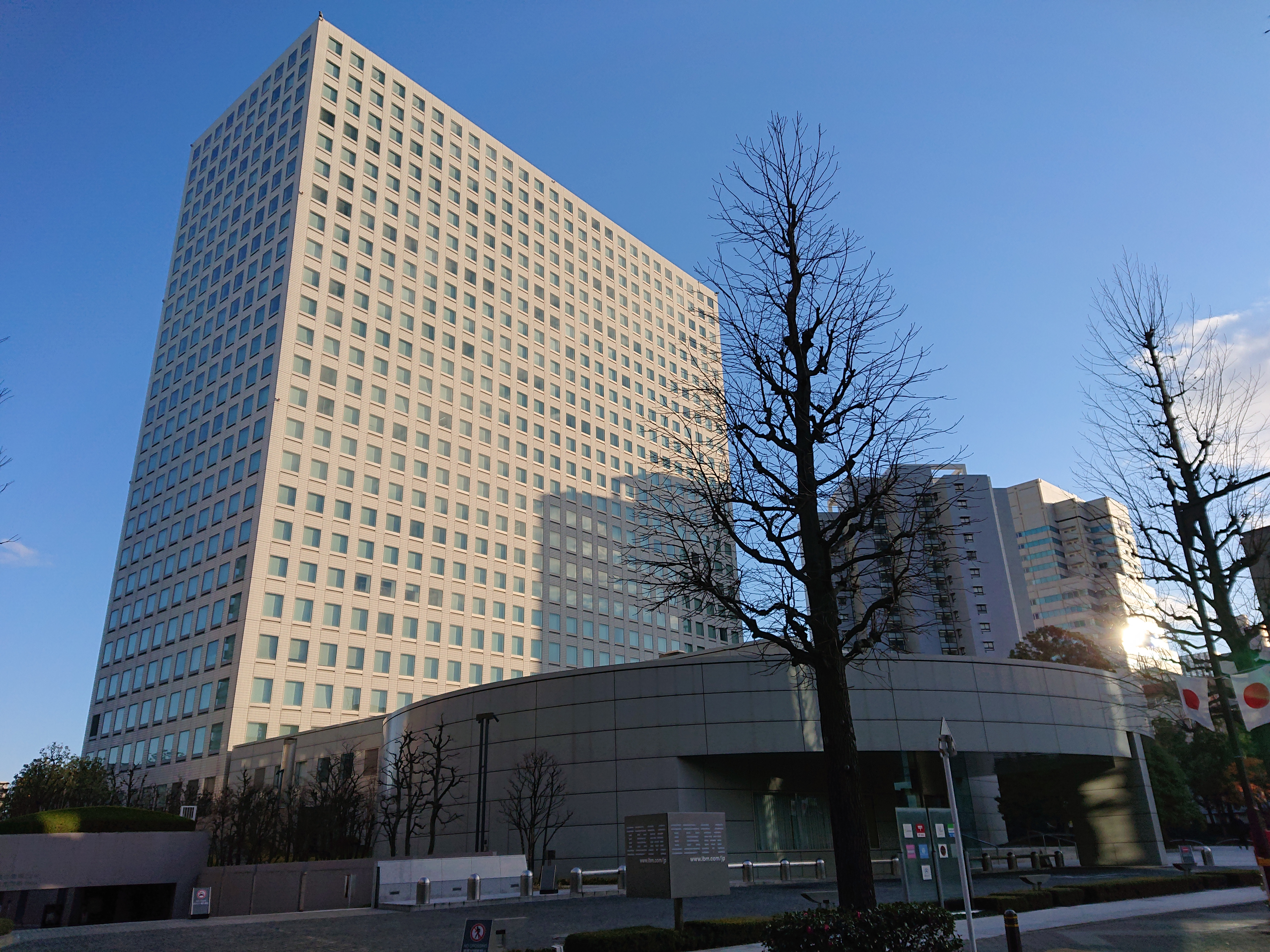 IBM Hakozaki Building (IBM箱崎ビル), located at 19-21 Nihonbashi-Hakozakicho, Chuo, Tokyo, Japan